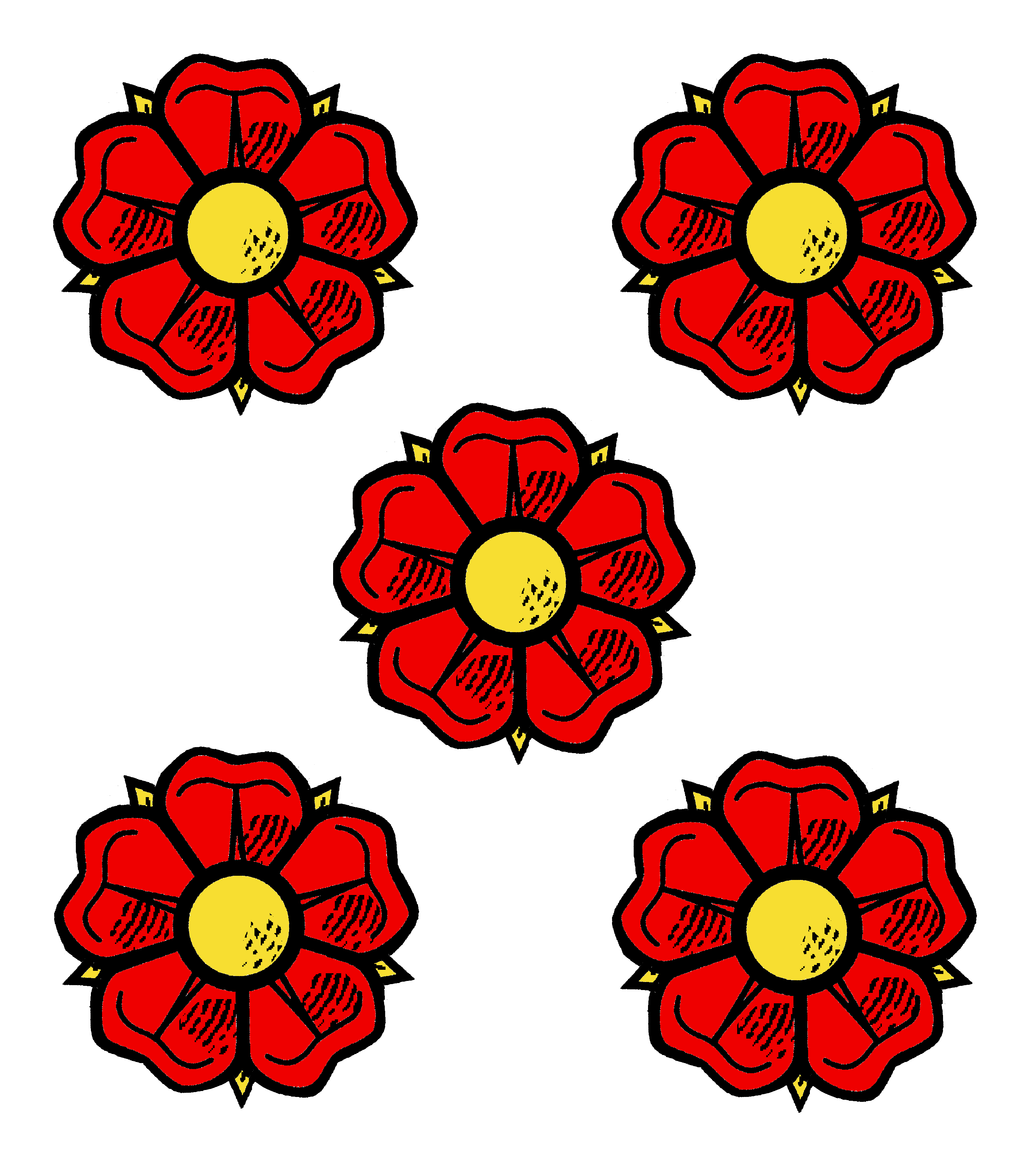 Coat of arms of the Duchy of Krumlov